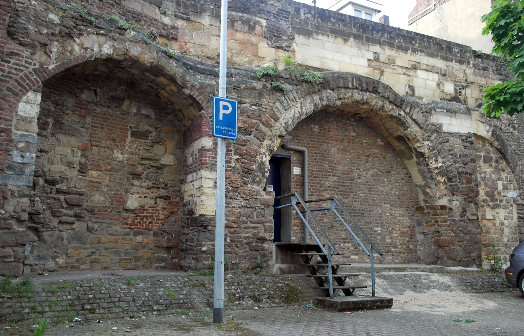 View of the first Medieval city wall of Maastricht, the Netherlands. This section is located between the Theater aan het Vrijthof and the houses on the south side of Grote Gracht.